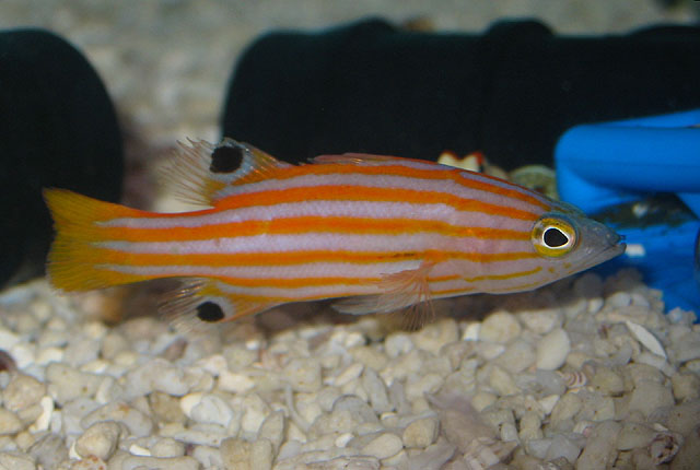 Liopropoma swalesi